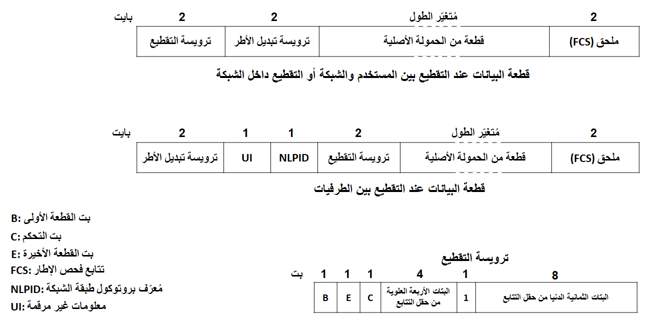 Different cases of data segment encapsulation when frame relay is used as a link protocol.